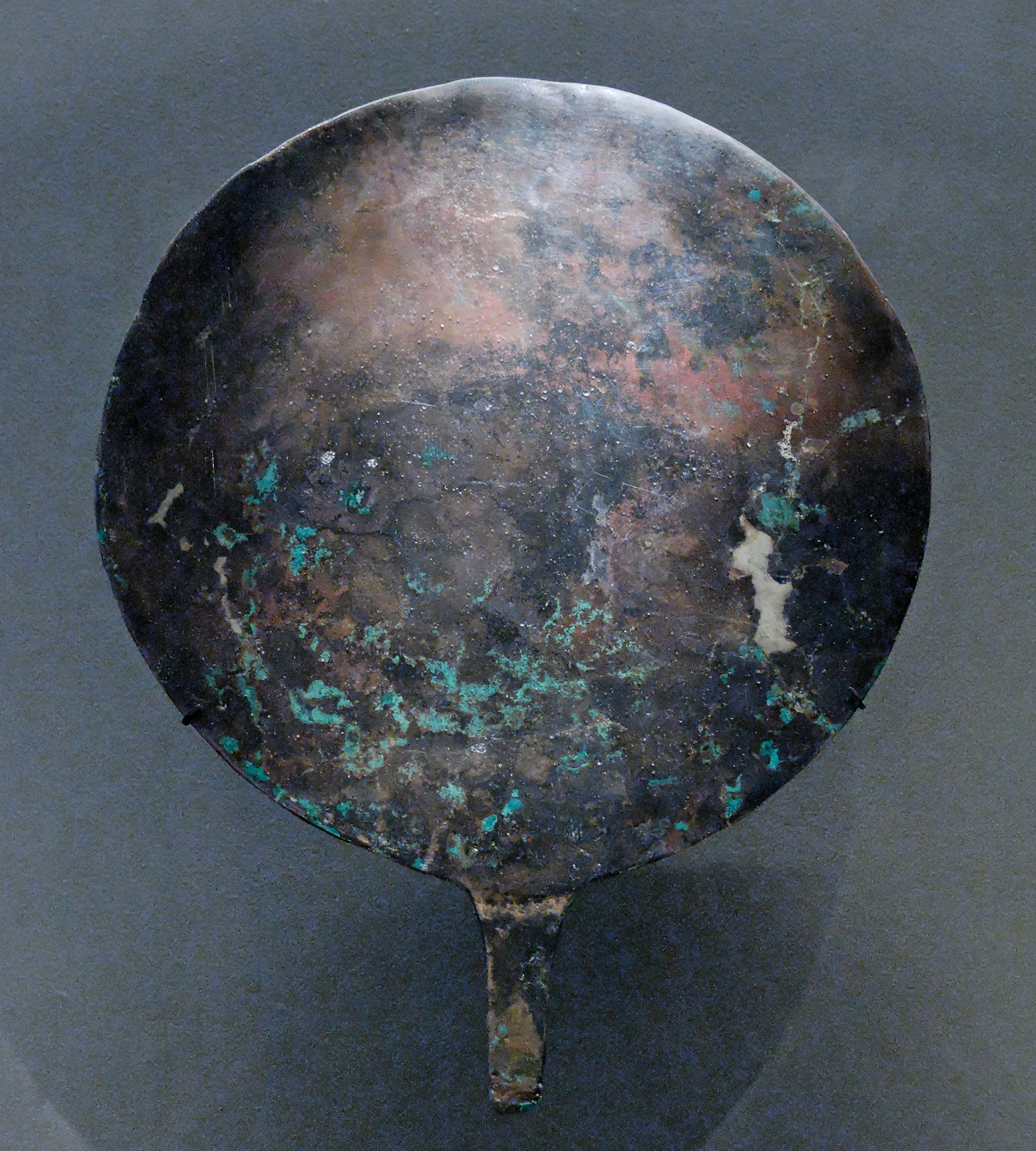 Mirror. Bronze, 13–12th centuries BC. Found in Mari, tomb 236.